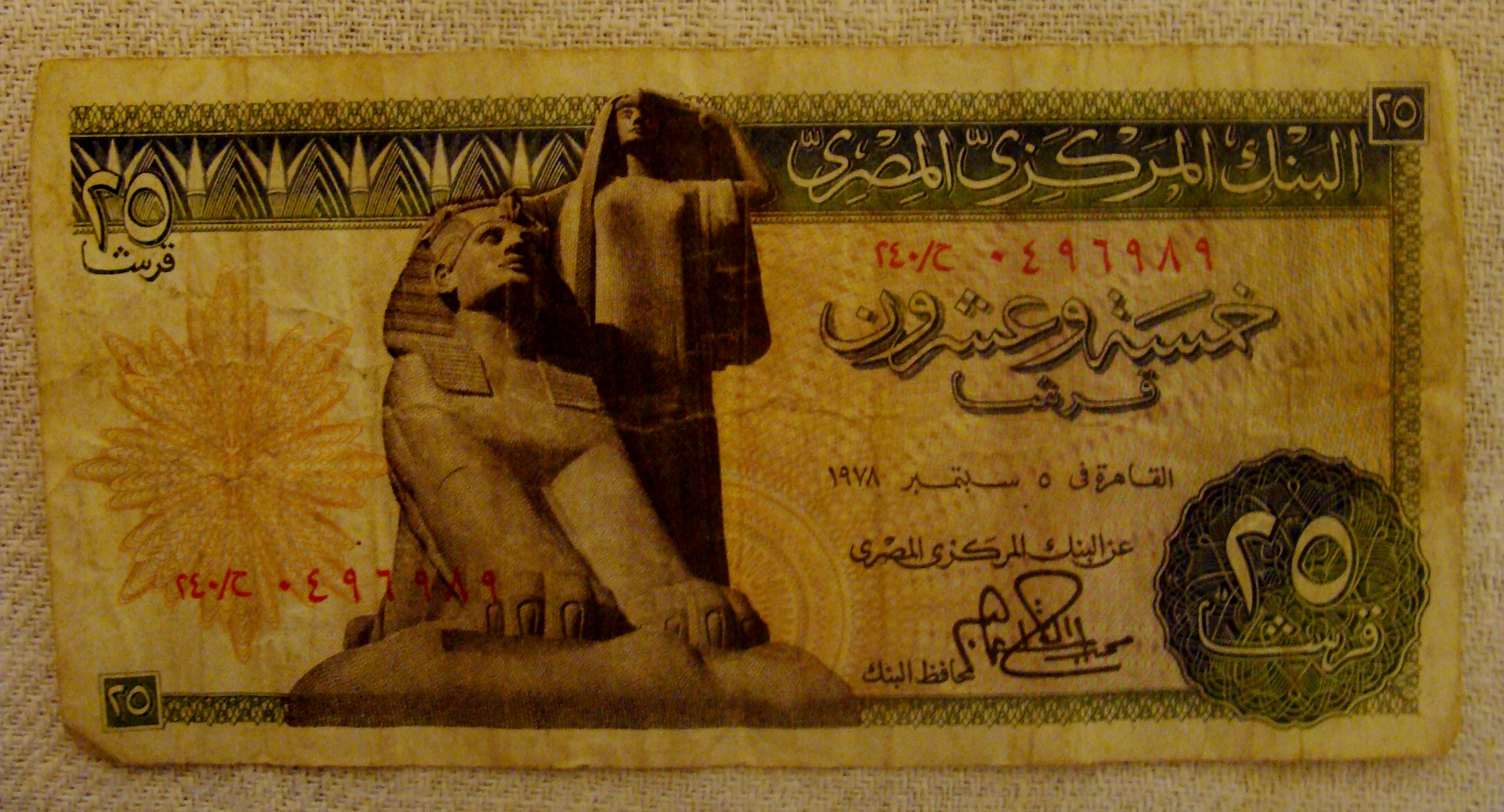 20 Egyptian Piastre note